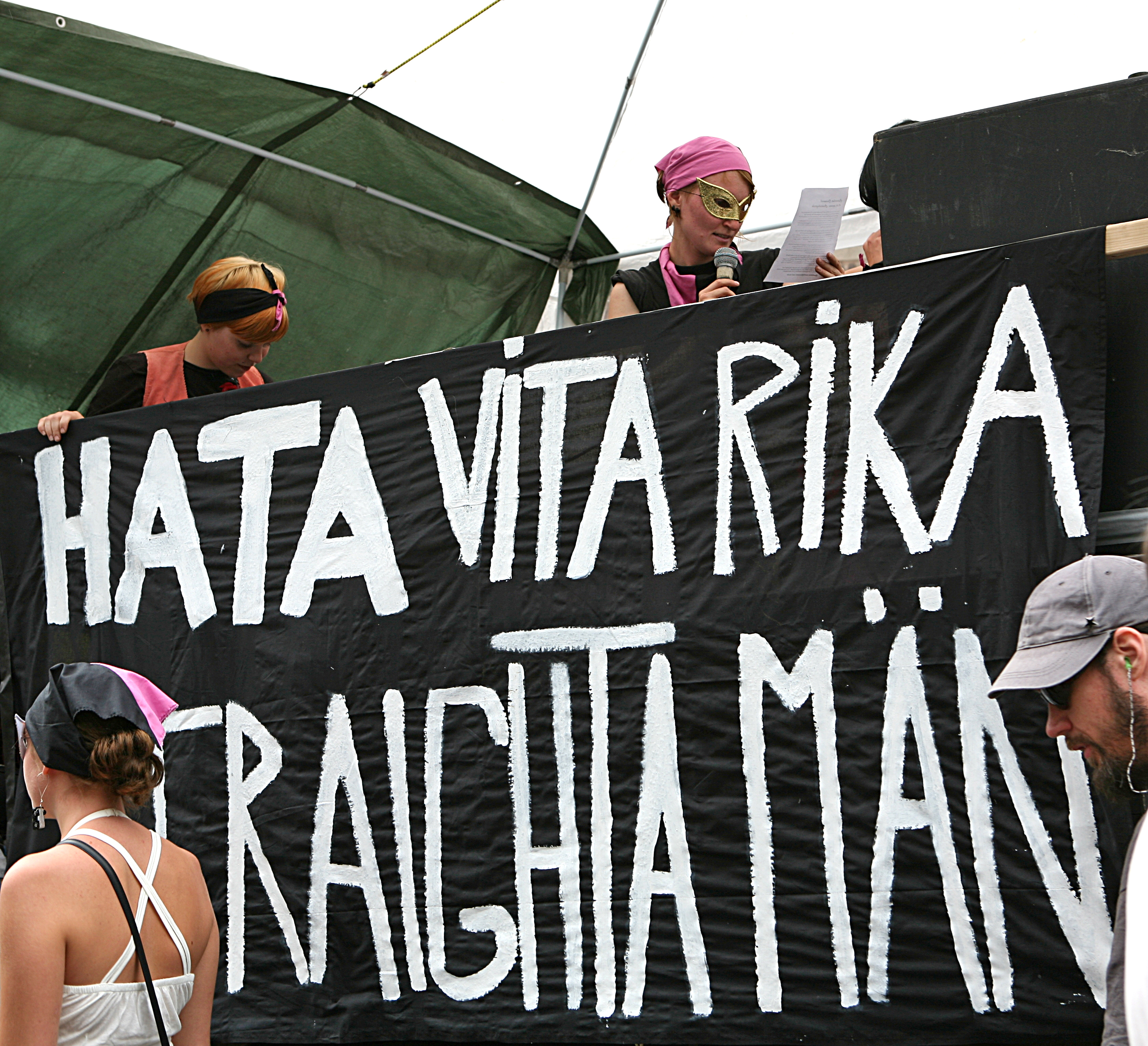 Radical feminists poster: "Hate White Rich Straight Men!"